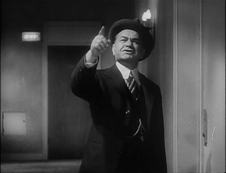 Cropped screenshot of Edward G. Robinson from the trailer for the film Double Indemnity